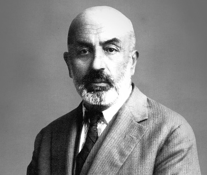 Mehmet Âkif Ersoy (20 December 1873 – 27 December 1936) was an Ottoman-born Turkish poet, writer, academic, politician, and the author of the Turkish National Anthem. Widely regarded as one of the premiere literary minds of his time, Ersoy is noted for his command of the Turkish language, as well as his patriotism and role in the Turkish War of Independence.